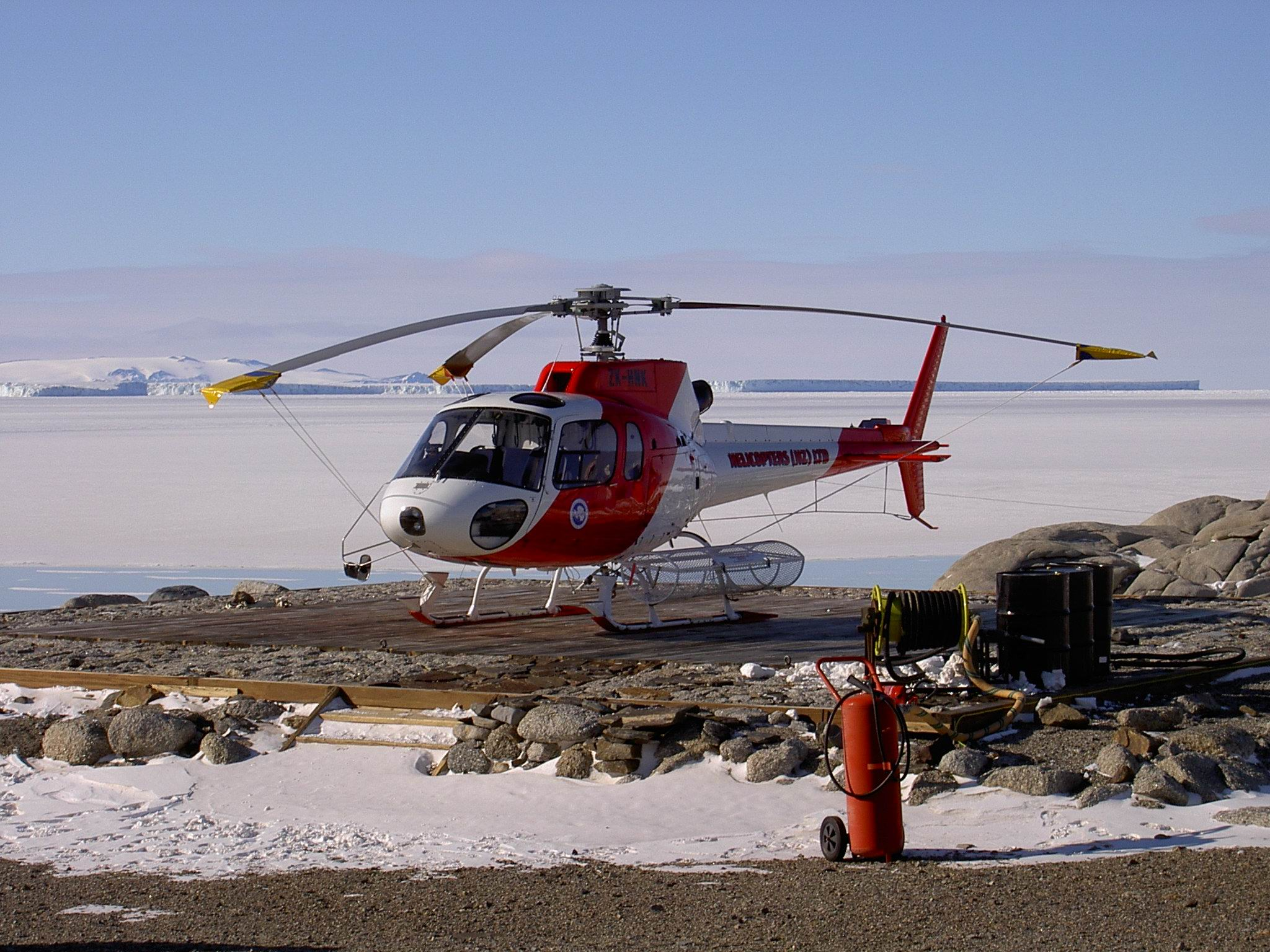 One of the Helicopters New Zealand Aircraft utilised by the Italian Program at Tera Nova Bay, Mario Zuchelli Station.